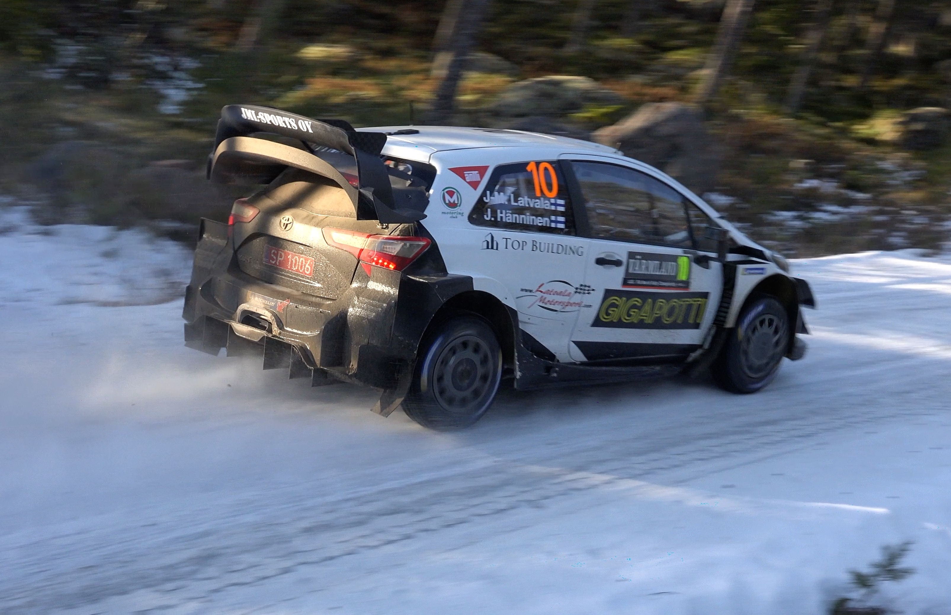 Latvala at Rally Sweden 2020.